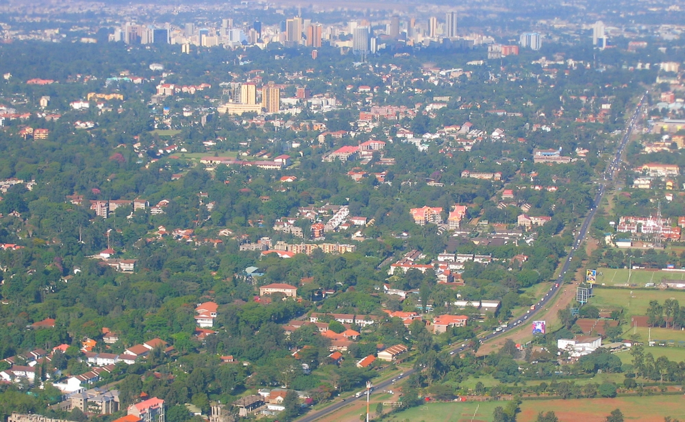 An aerial of the Kenyan capital, Nairobi.